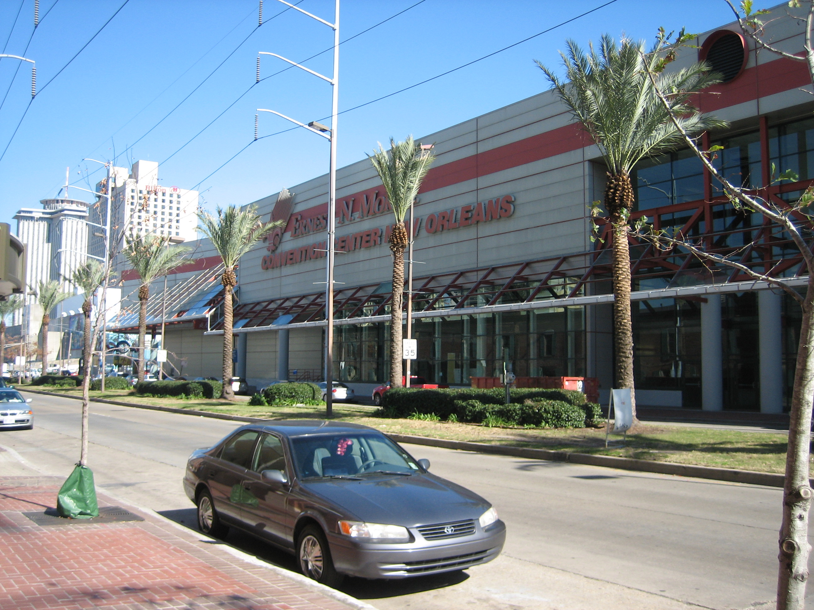 View of part of Ernest N. Morial Convention Center, New Orleans.